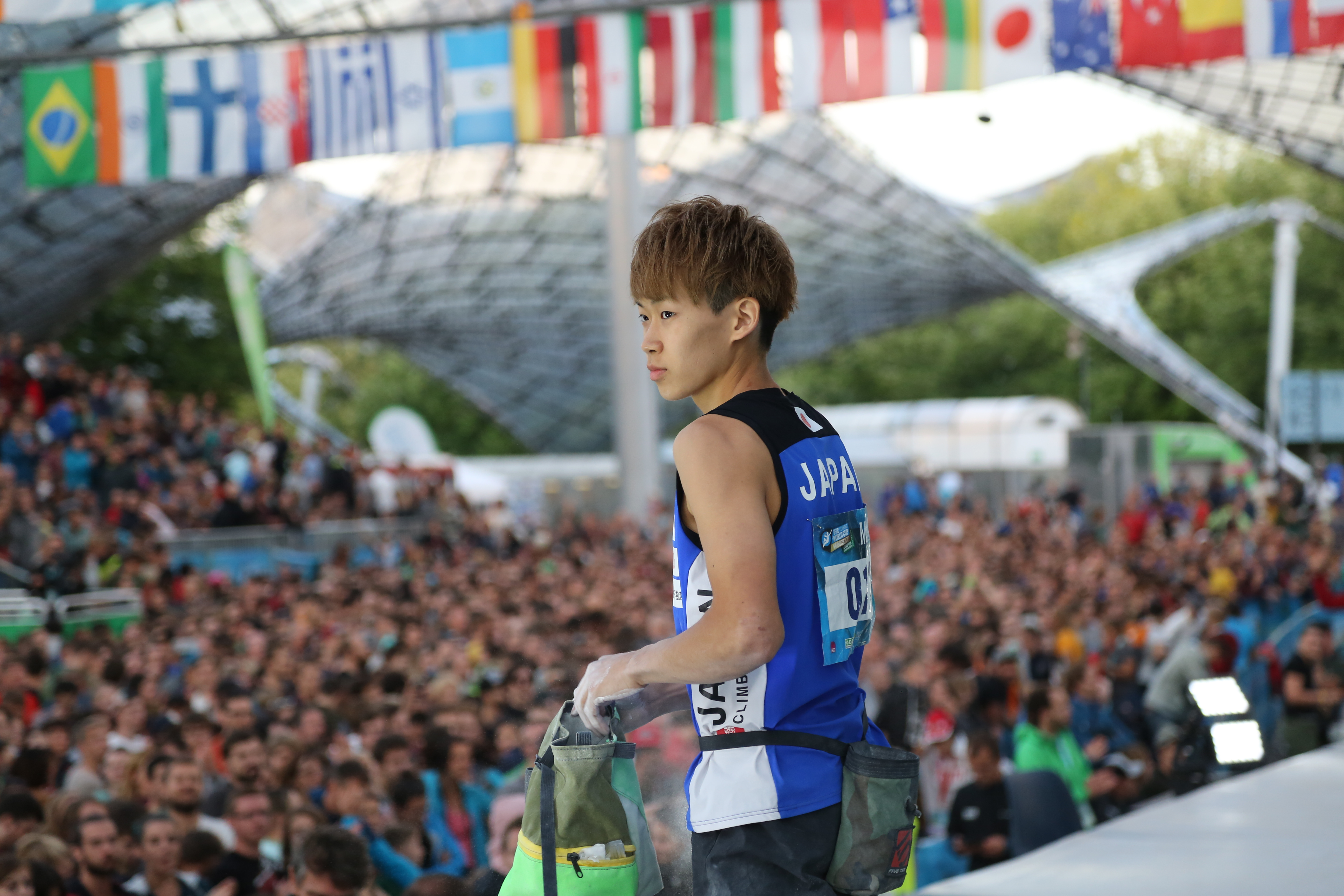 Yoshiyuki Ogata JPN at the Boulder Worldcup 2017 in Munich, Germany